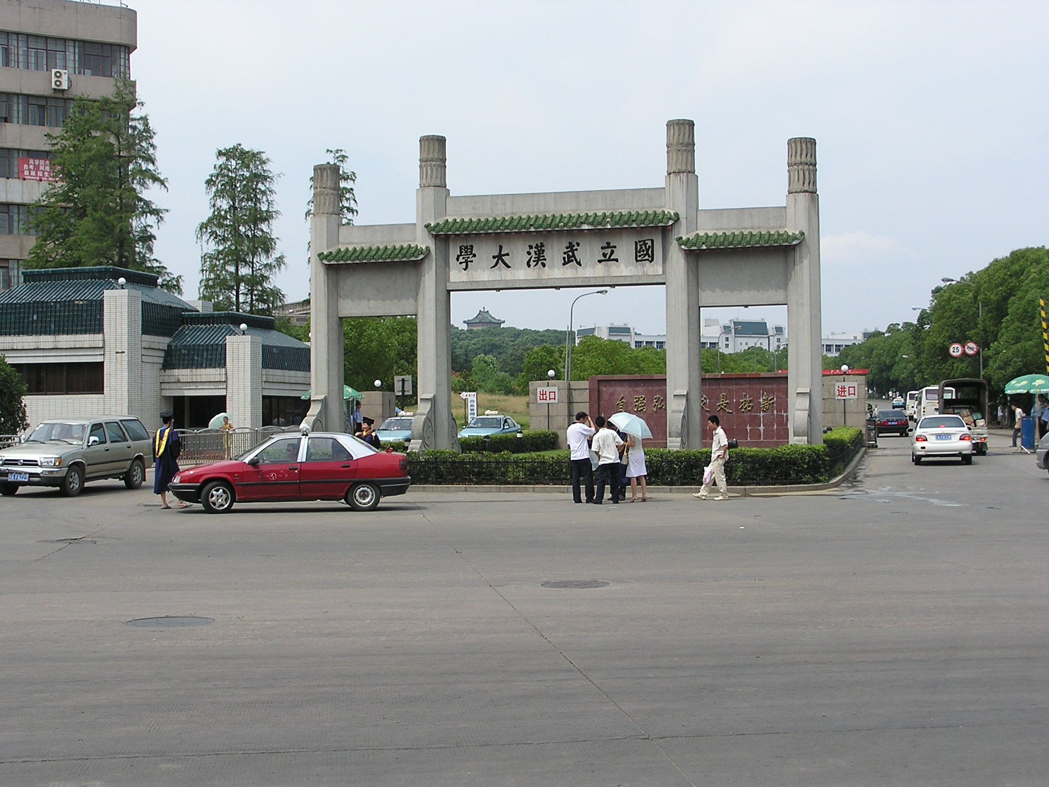 Entrance gate to the main campus of the University of Wuhan.